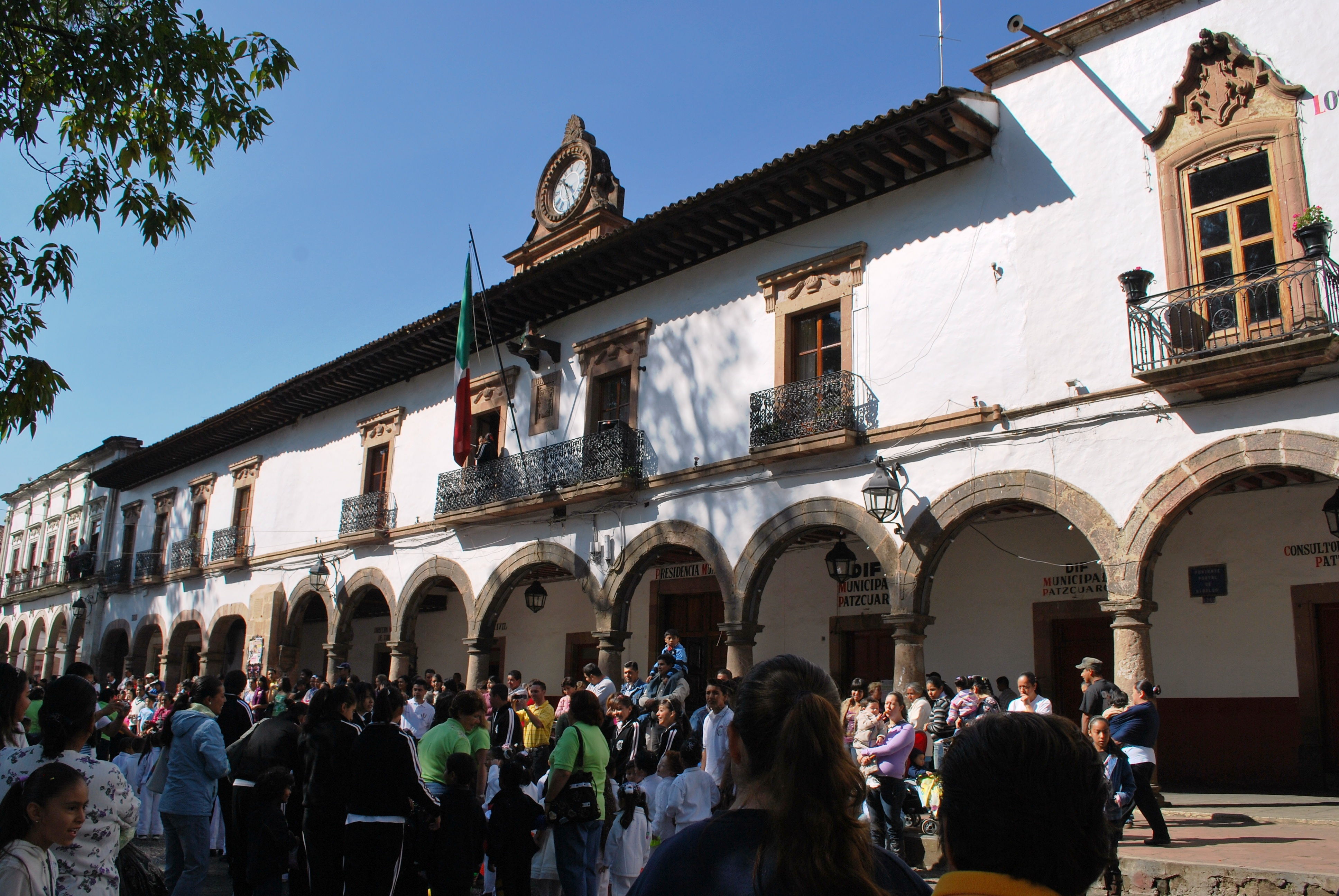 Municipal Palace of Patzcuaro, Michoacan